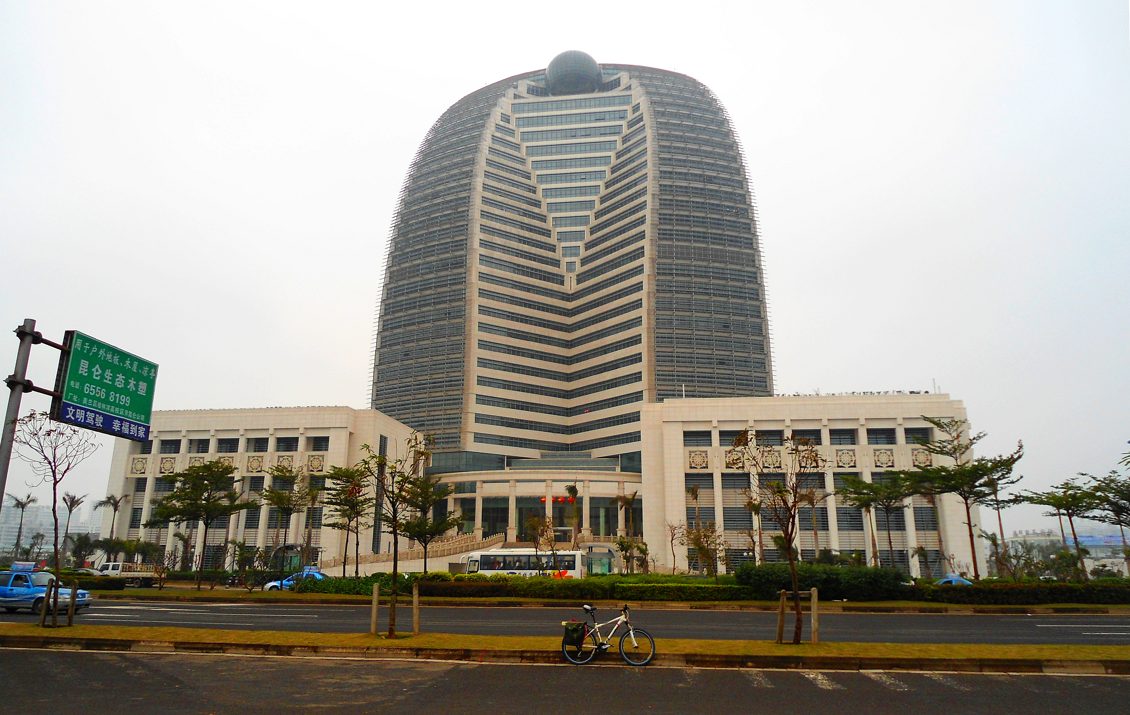 HNA Building (S: 海航大厦, T: 海航大廈, P: Hǎiháng Dàshà)/New Haihang Building (S: 新海航大厦, T: 新海航大廈, P: Xīn Hǎiháng Dàshà) - Hainan Airlines headquarters, No. 7 Guoxing Road, Haikou city, Hainan Province, 570000, PR,China.